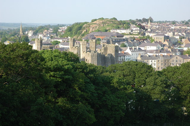 Caernarfon viewed from the folly View of Caernarfon from the west, the towers of the castle can be seen in the middle distance.